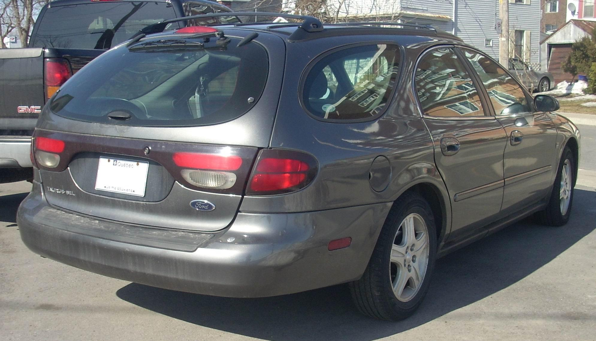 2000-2003 Ford Taurus photographed in Montreal, Quebec, Canada.